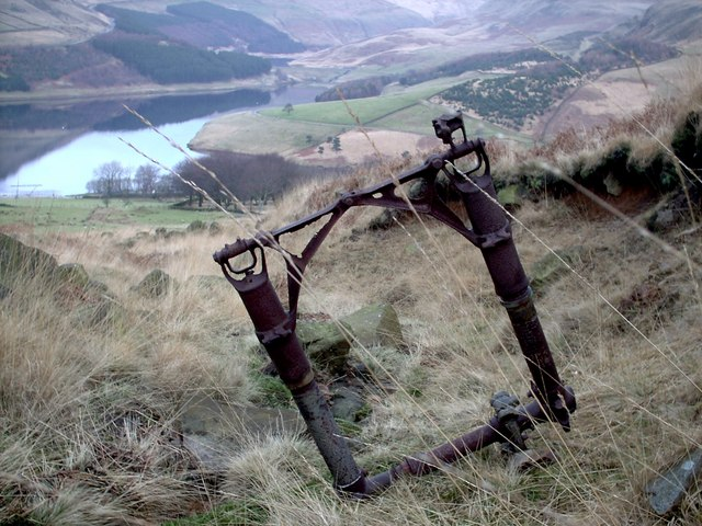 Douglas Dakota wreckage of undercarriage Crashed 19th April 1949 on Wimberry Stones Brow en route from Belfast to Manchester Airport. There were 24 fatalities (21 passengers and 3 crew). 8 passengers survived. The picture is not of the crash site itself, which is uphill at SE0155602245, but as the crash site was subsequently extensively tidied up, the undercarriage frame near the foot of the clough is now the largest remaining piece of wreckage. Dovestone Reservoir can be seen below.